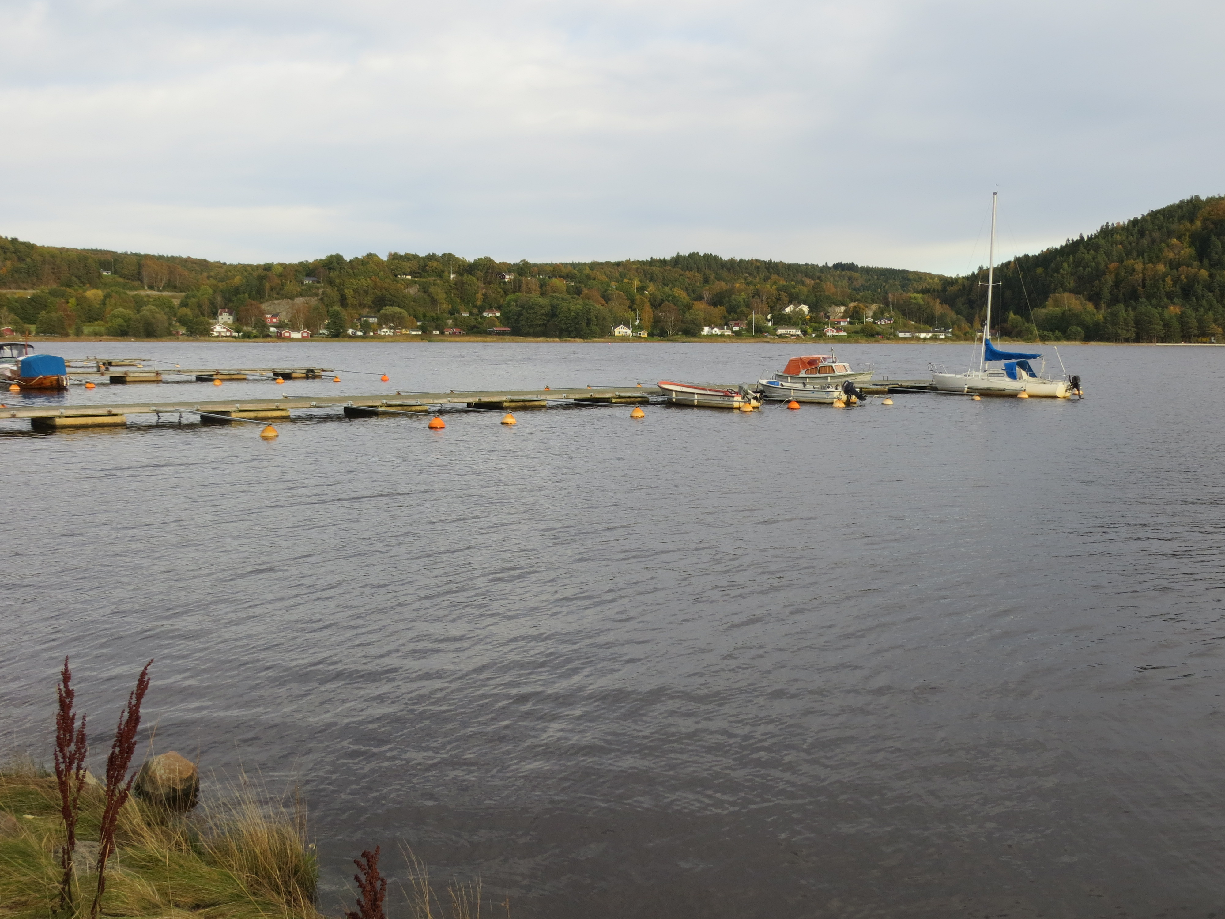 Saltkällan is a little village in the southern part of Munkedal municipality, Bohuslen, western Sweden. It is situated in the northeastern bottom of the Gullmarsfjorden fjord.